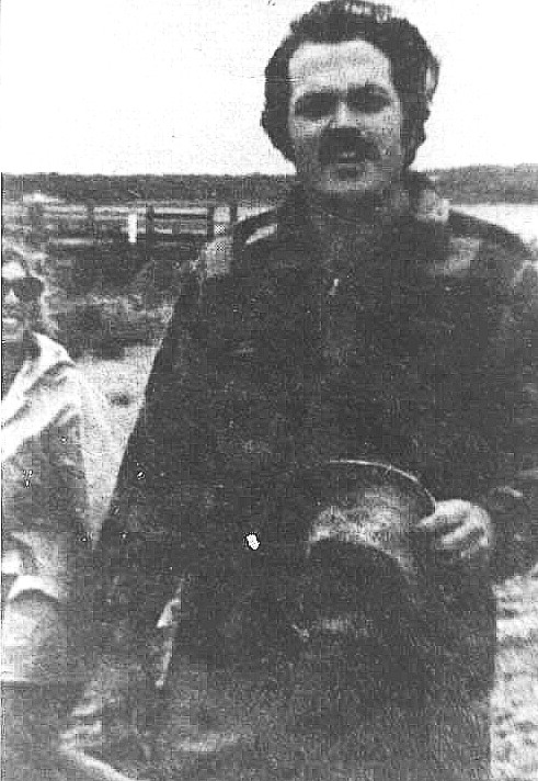 Dressed as 'Charlie' the fisherman, waiting to do his scene.